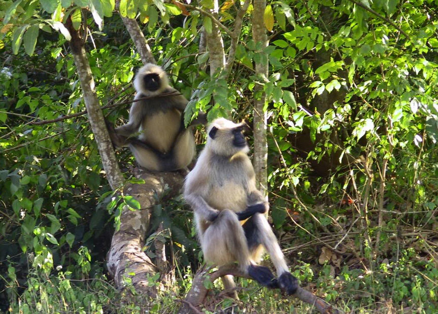 Monkeys in Nandankanan Zoological Park in Bhubaneswar, Odisha.